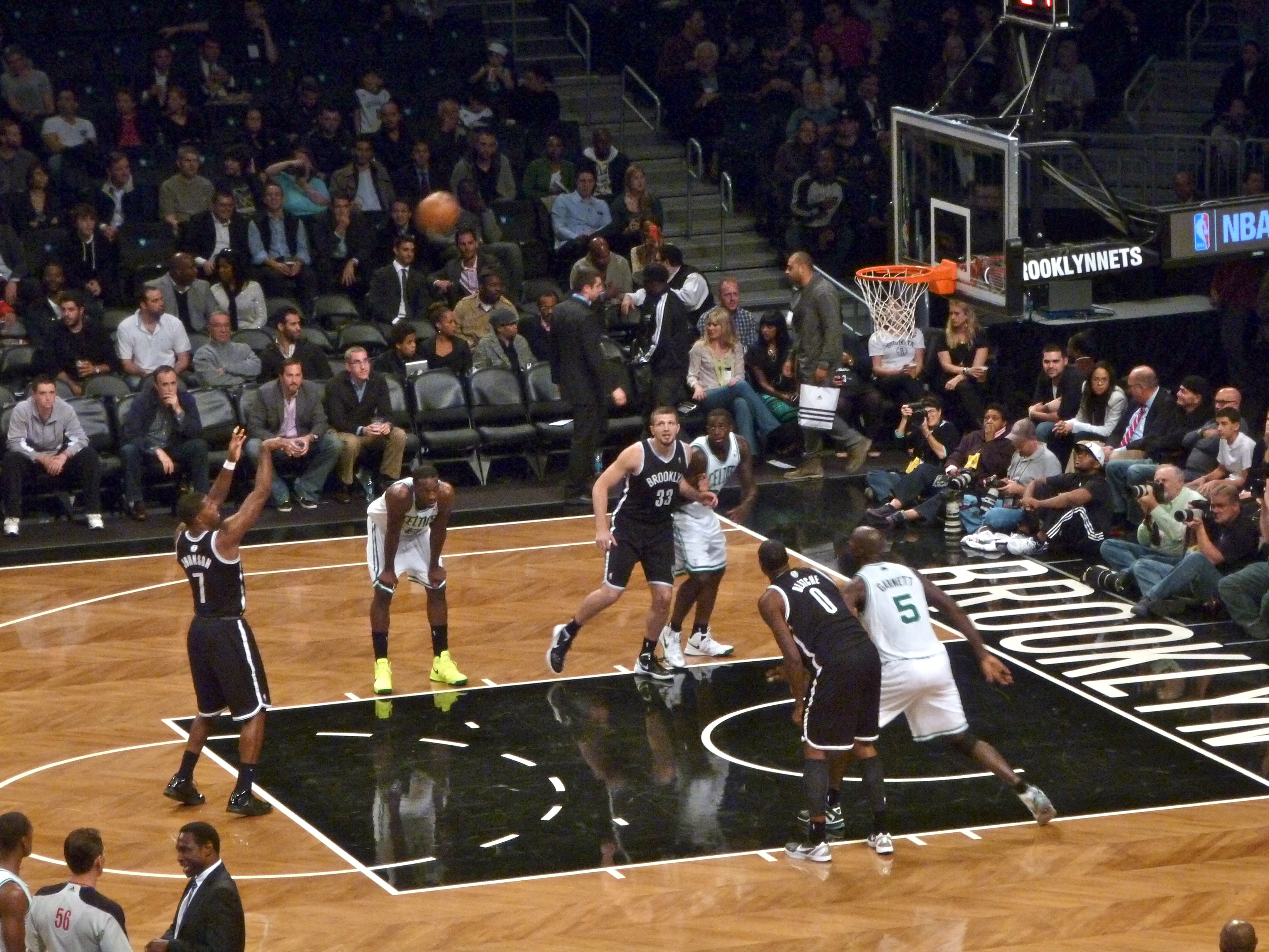 Joe Johnson of the Brooklyn Nets shooting a free throw in a basketball game against the Boston Celtics in Barclays Center.